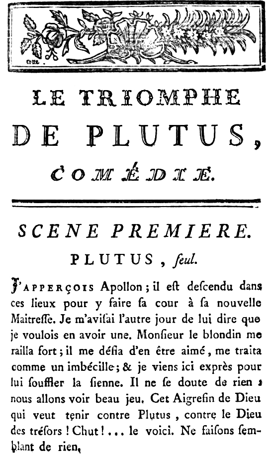 First page of The Triumph of Plutus (1728) by Pierre de Marivaux (1688-1763)